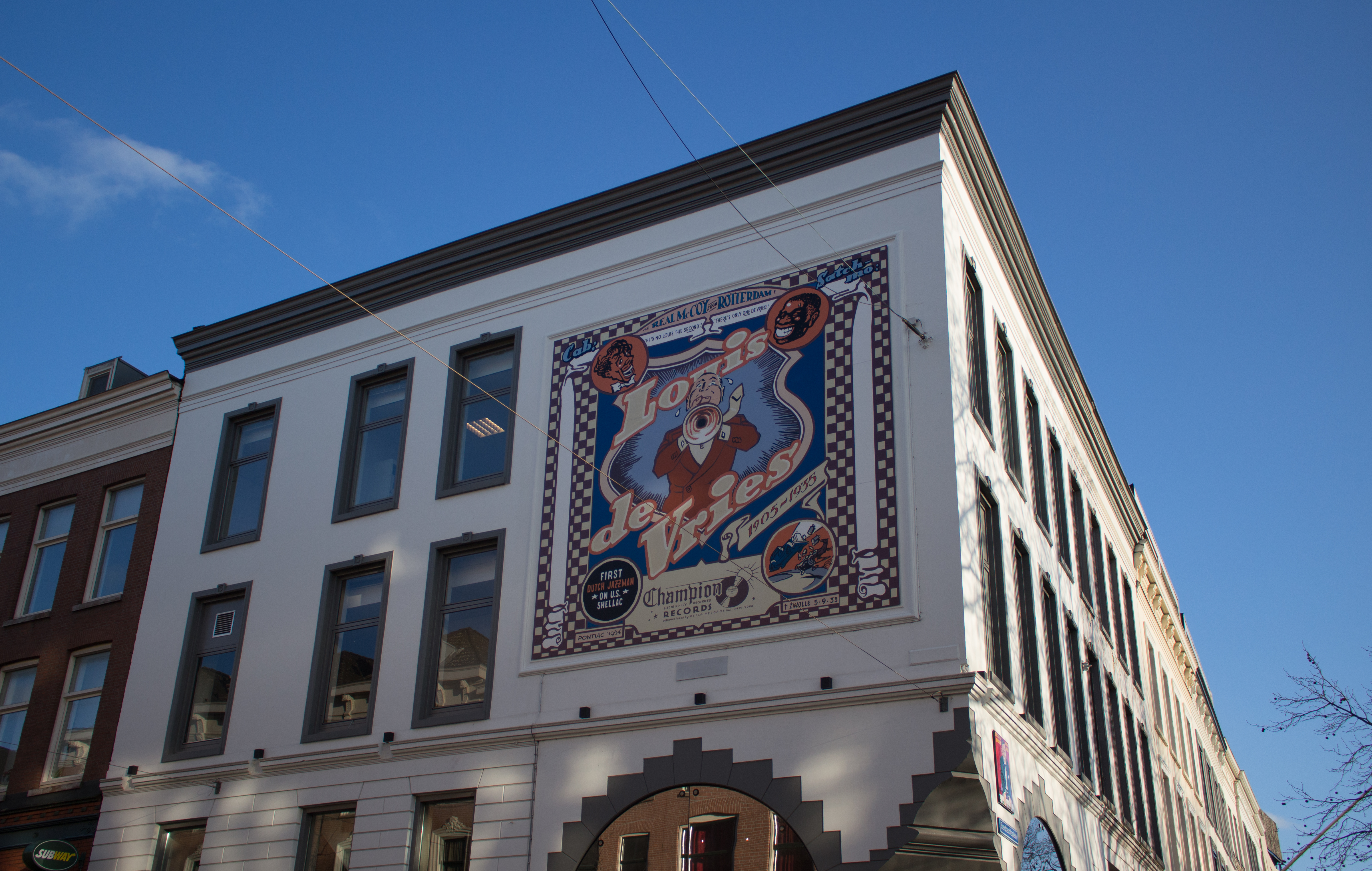 Louis de Vries by Pontiac